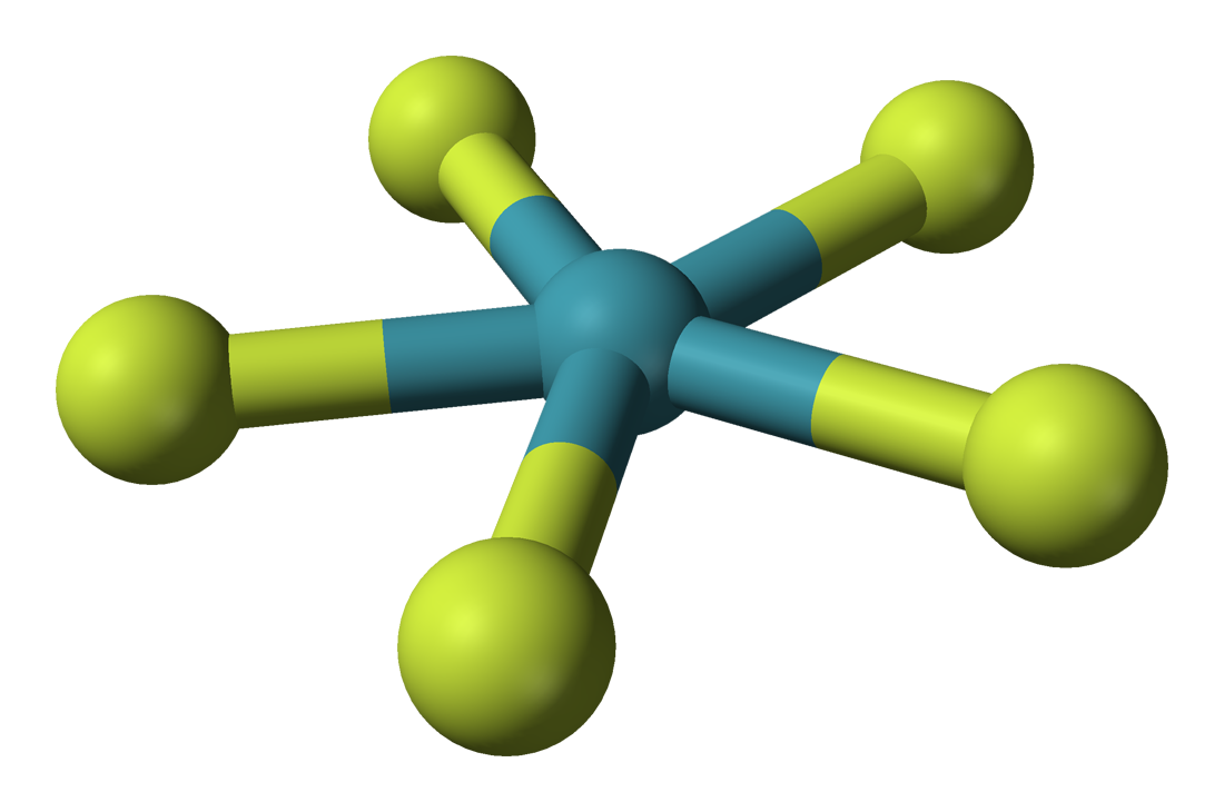 Ball-and-stick model of the pentafluoroxenate ion, [XeF5]−, from the crystal structure of tetramethylammonium pentafluoroxenate, [N(CH3)4][XeF5]. X-ray crystallographic data from J. Am. Chem. Soc. (1991) 113 3351-3361. Model constructed in CrystalMaker 8.1. Image generated in Accelrys DS Visualizer.